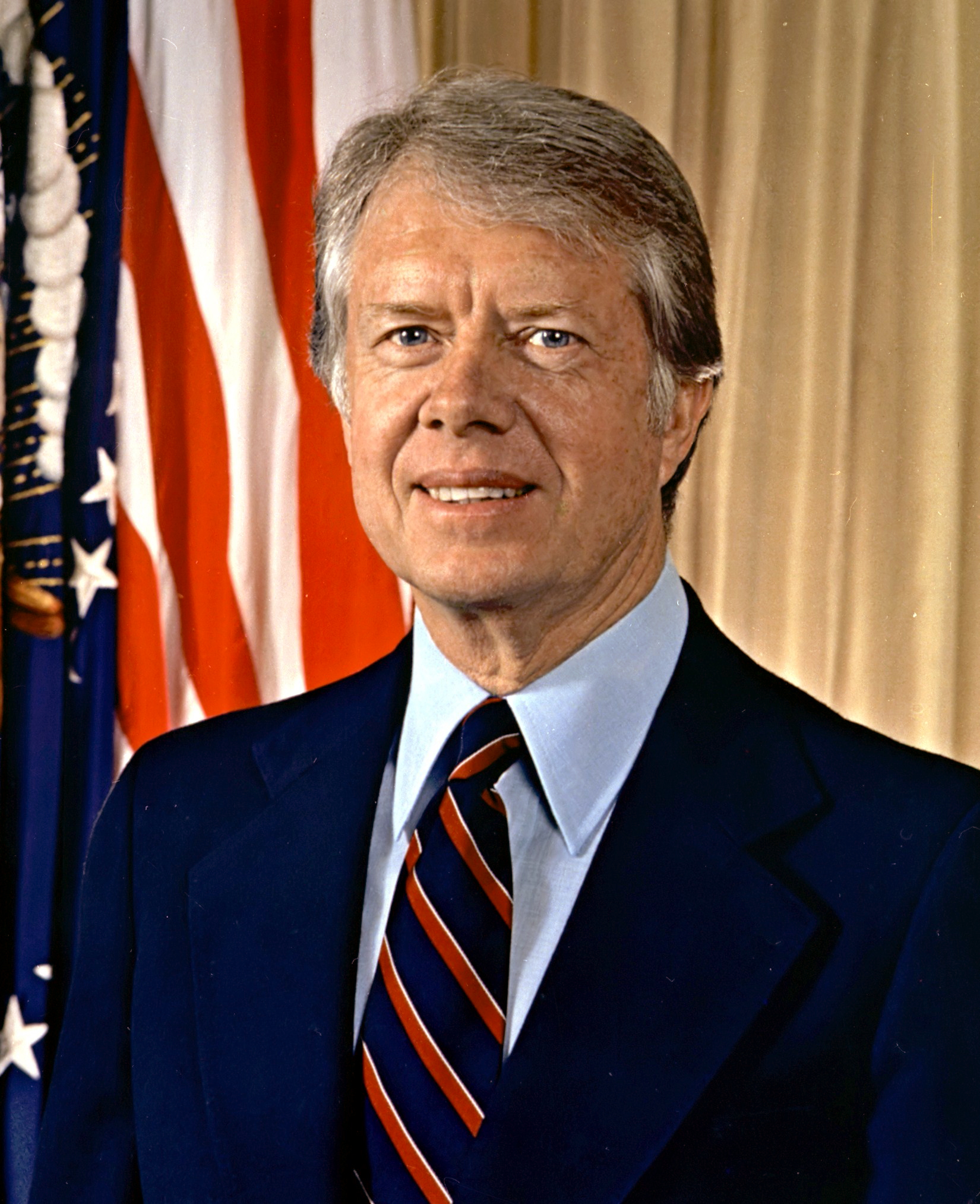 Jimmy Carter's presidential photograph